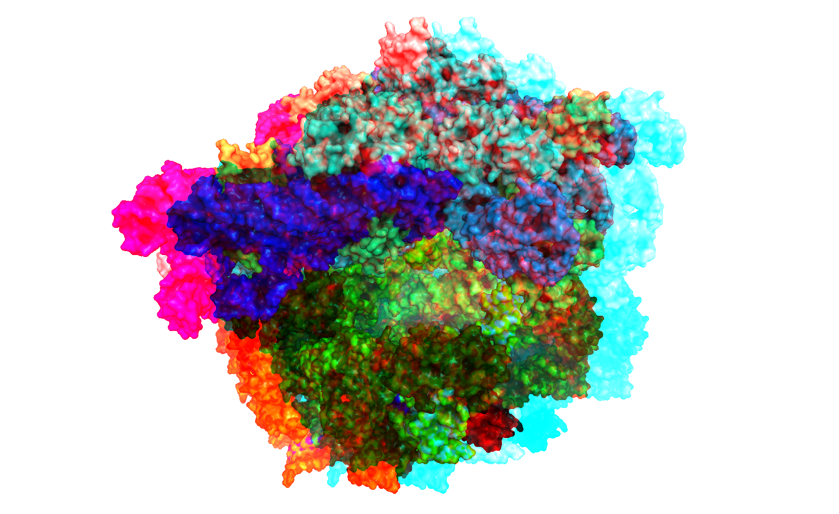 Anaglyph image of the ribosome.